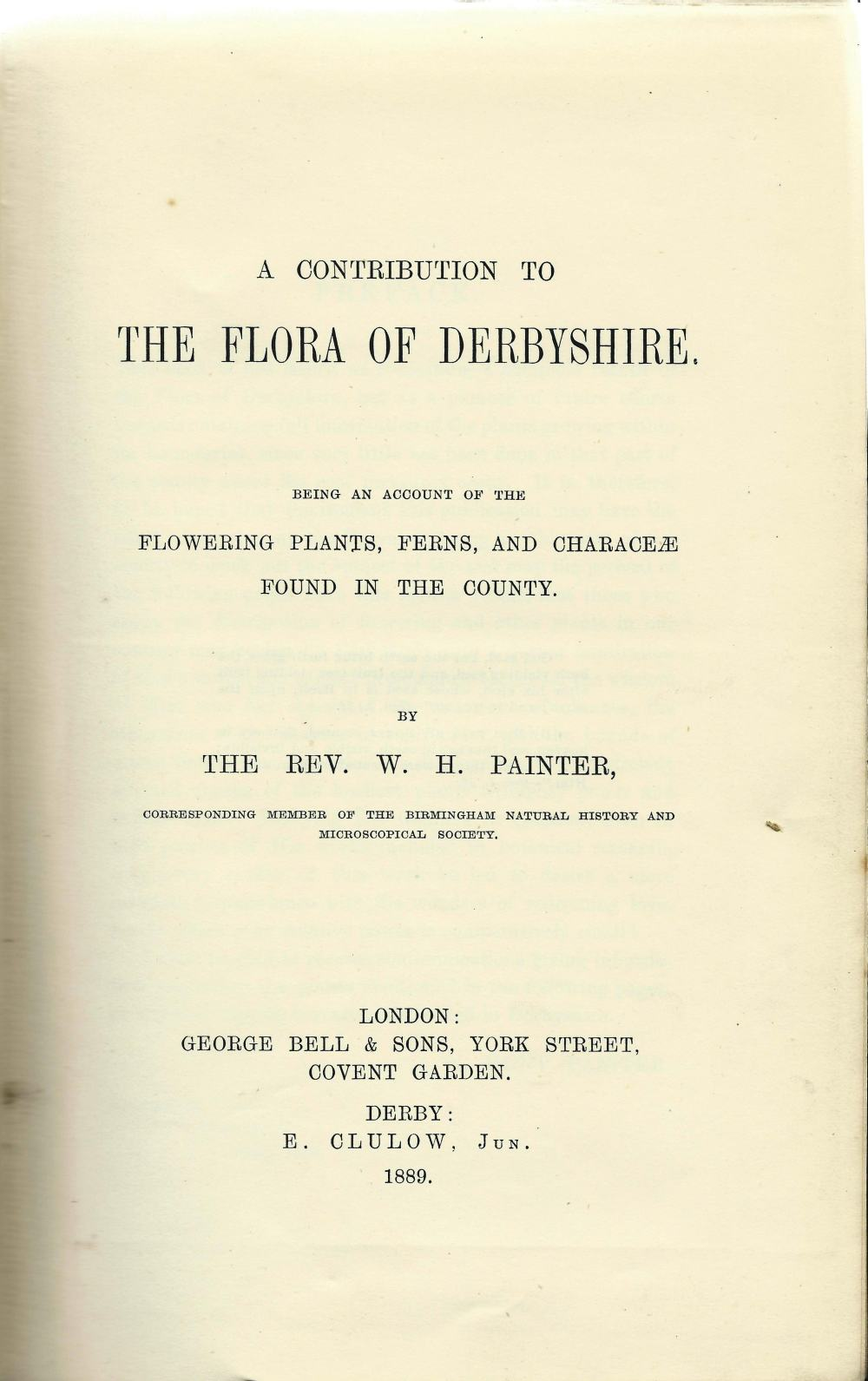 Inside page of Painter's 1889 Flora of Derbyshire.